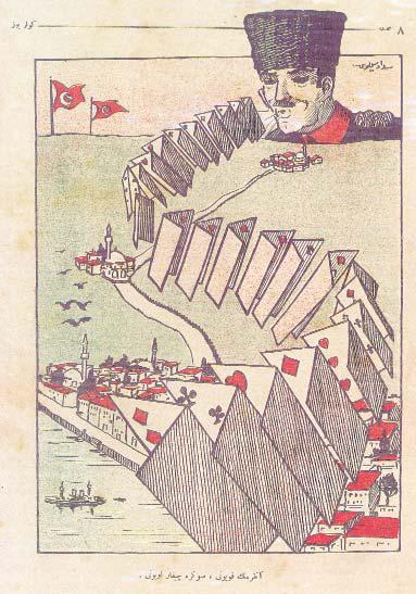 "The Sheep of Ankara, shows its hand at last." Political cartoon by Sedat Simavi, in Istanbul magazine Güleryüz on October 1922, on its "Extraordinary issue of Victory and Triumph", published following the recapture of Izmir from Greece.